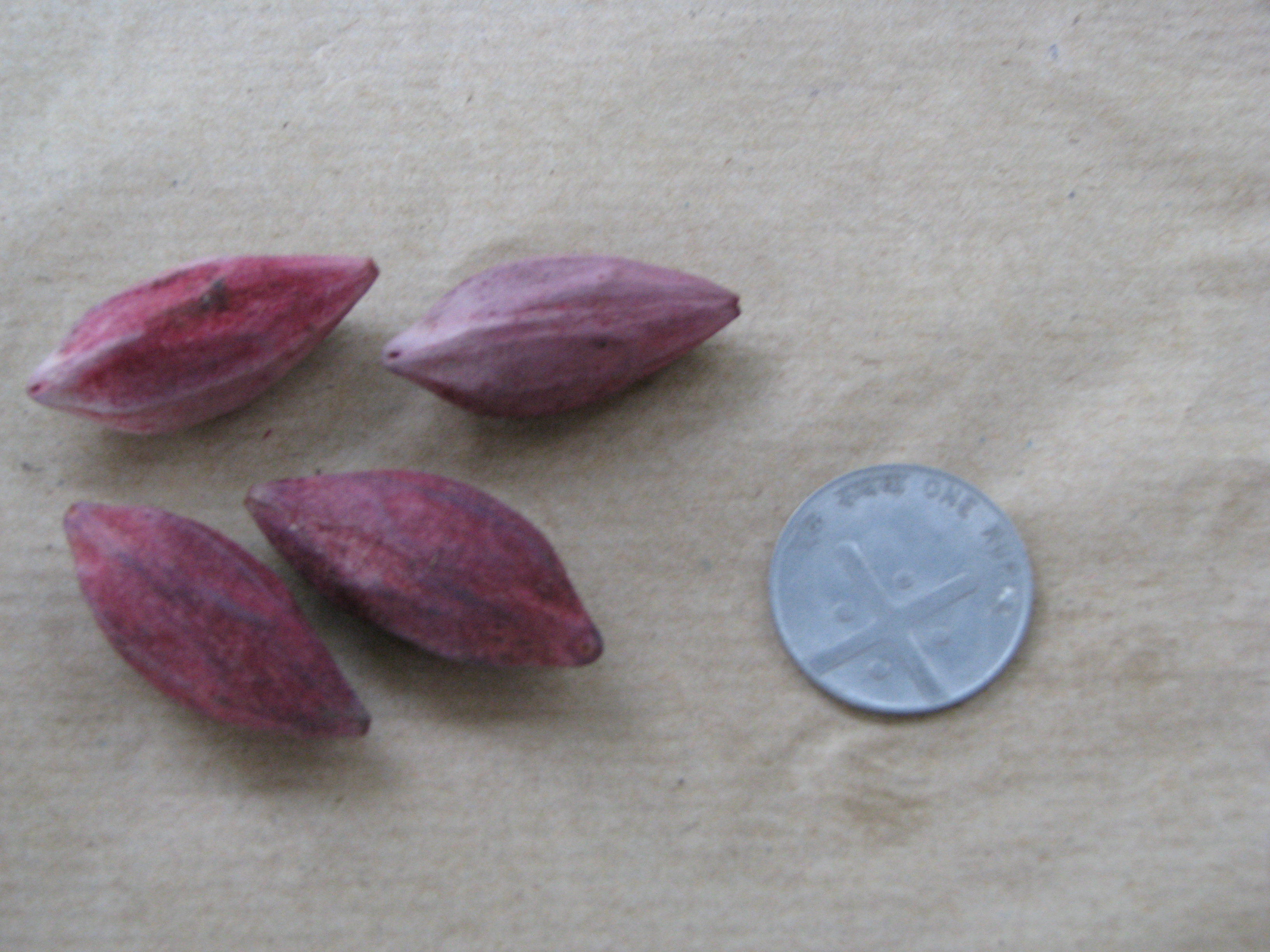 Canarium resiniferum seeds after dispersed by hornbills